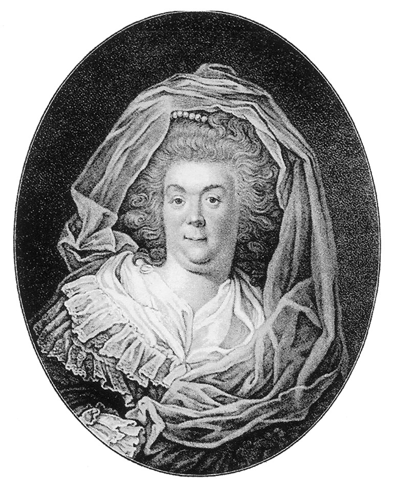 Prinzessin George, grandmother of Luise von Mecklenburg-Strelitz, Queen of Prussia.